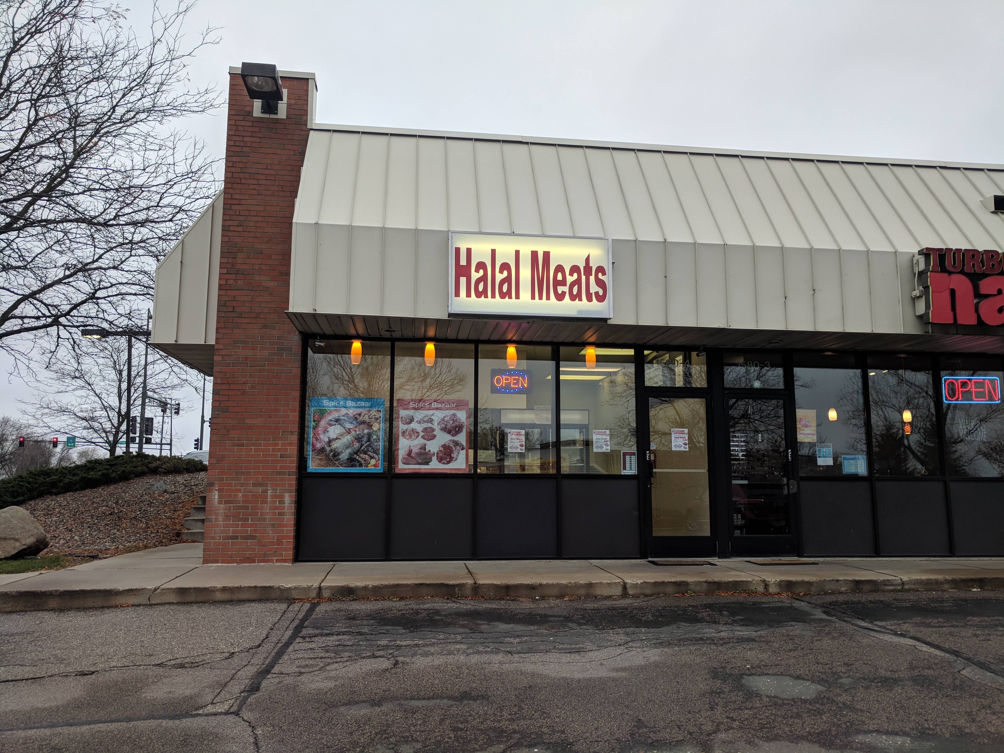 This is an image of a Halal market store for groceries in Woodbury, Minnesota in the United States.